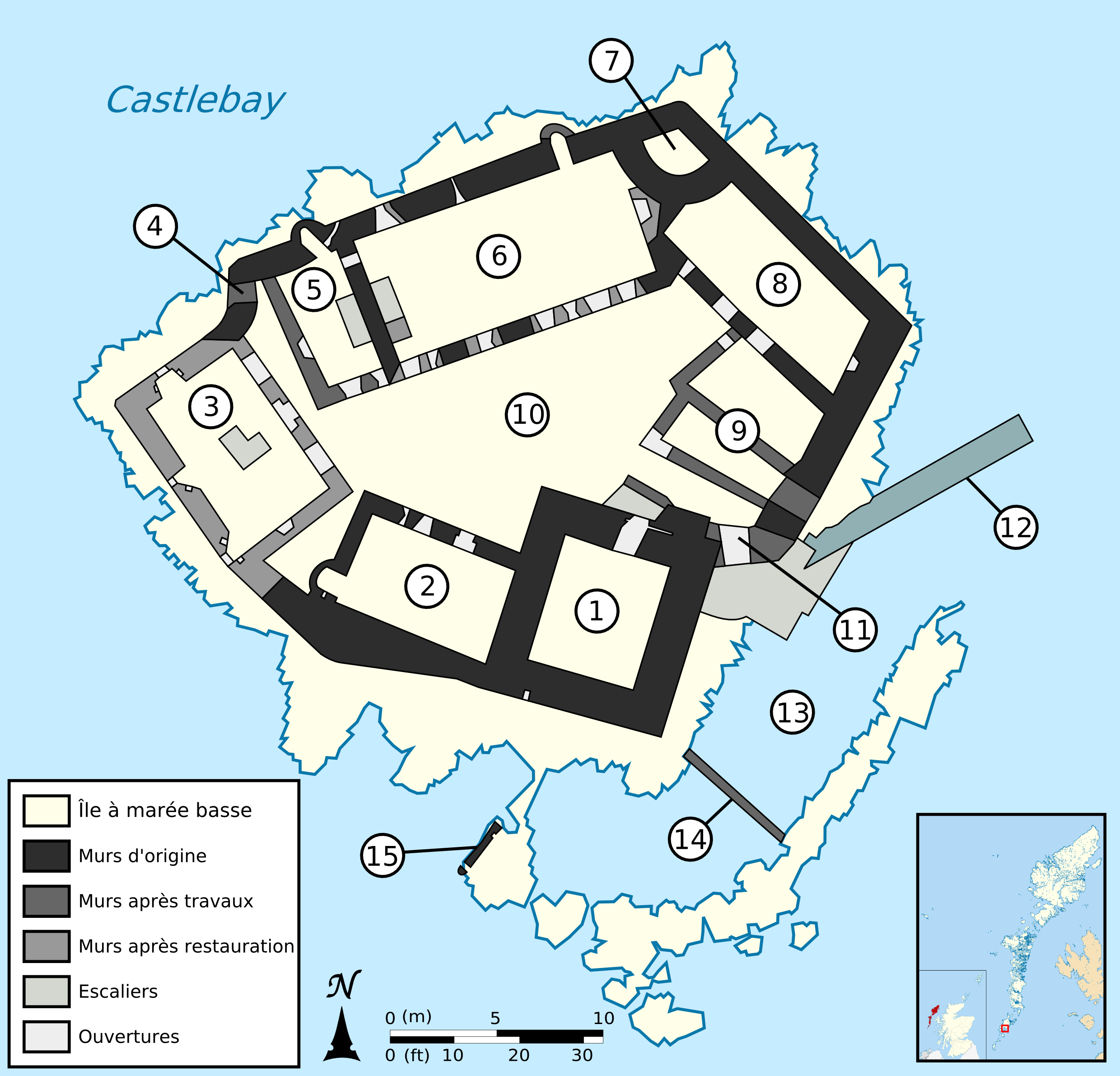 Floor plan of Kisimul Castle, Scotland, United Kingdom. 1 Keep 2 Kitchen 3 Tanist House 4 Postern 5 Marion of the Head's Addition 6 Great Hall 7 Watchtower 8 Chapel 9 Gockman's House 10 Courtyard 11 Gate 12 Slipway 13 Creek 14 Breakwater wall 15 Crew's house